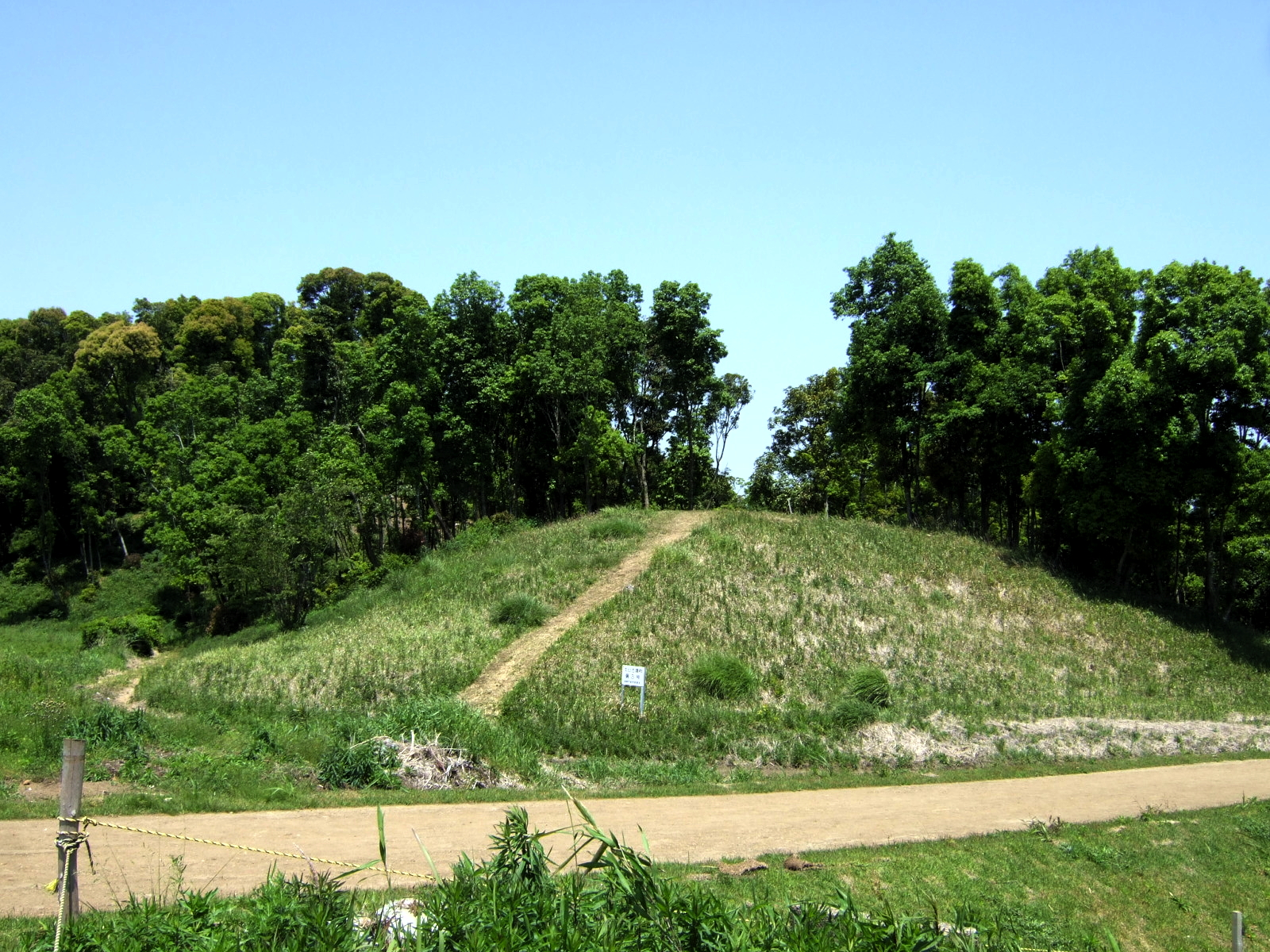 Ikime tumulus 3rd